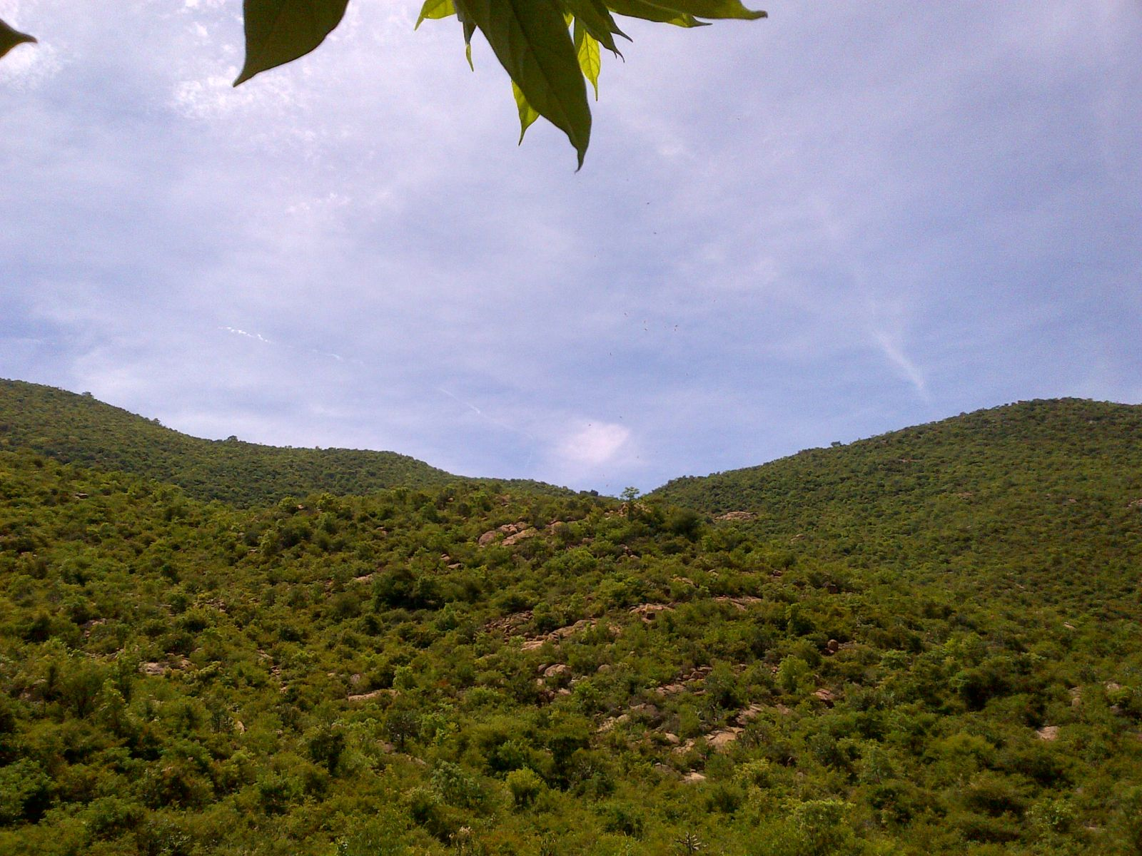 vathalmalai dharmapuri in tamilnadu